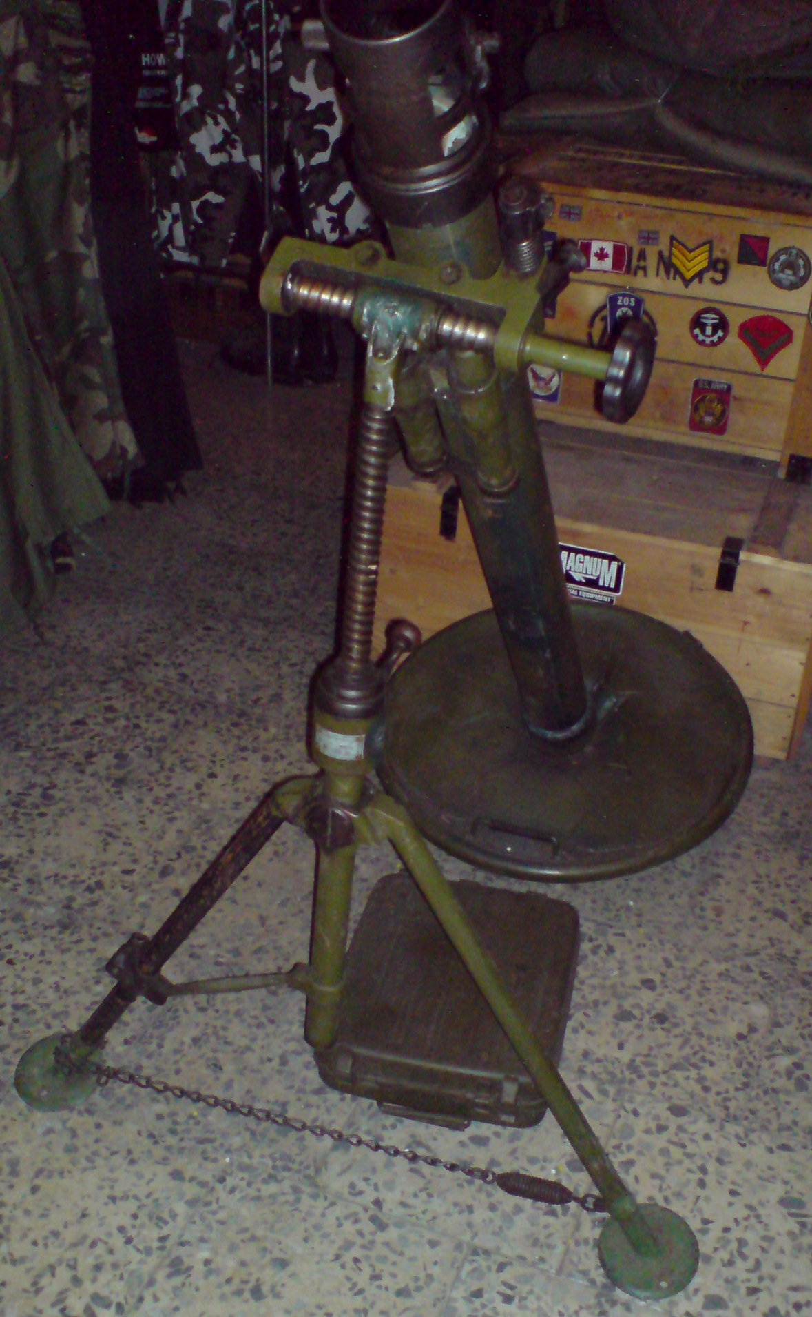 82 mm battalion mortar (model 1937), range 100-3000 m;in use in Polish army also in 1955